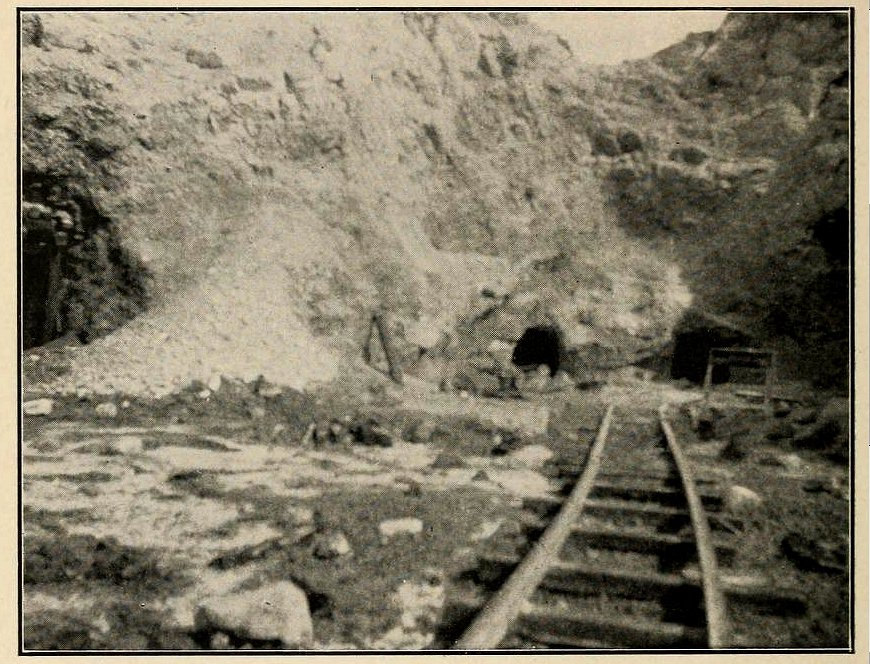 A 1903 photo of the open pit and drift of the "western cut" at Sulphur Bank Mercury Mine.